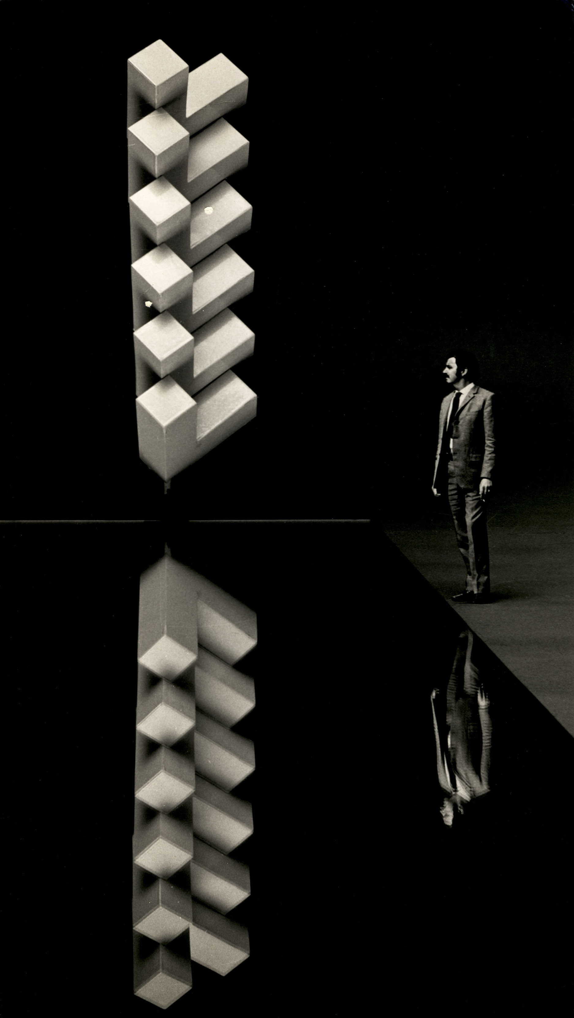 Mark Verstockt with his sculpture